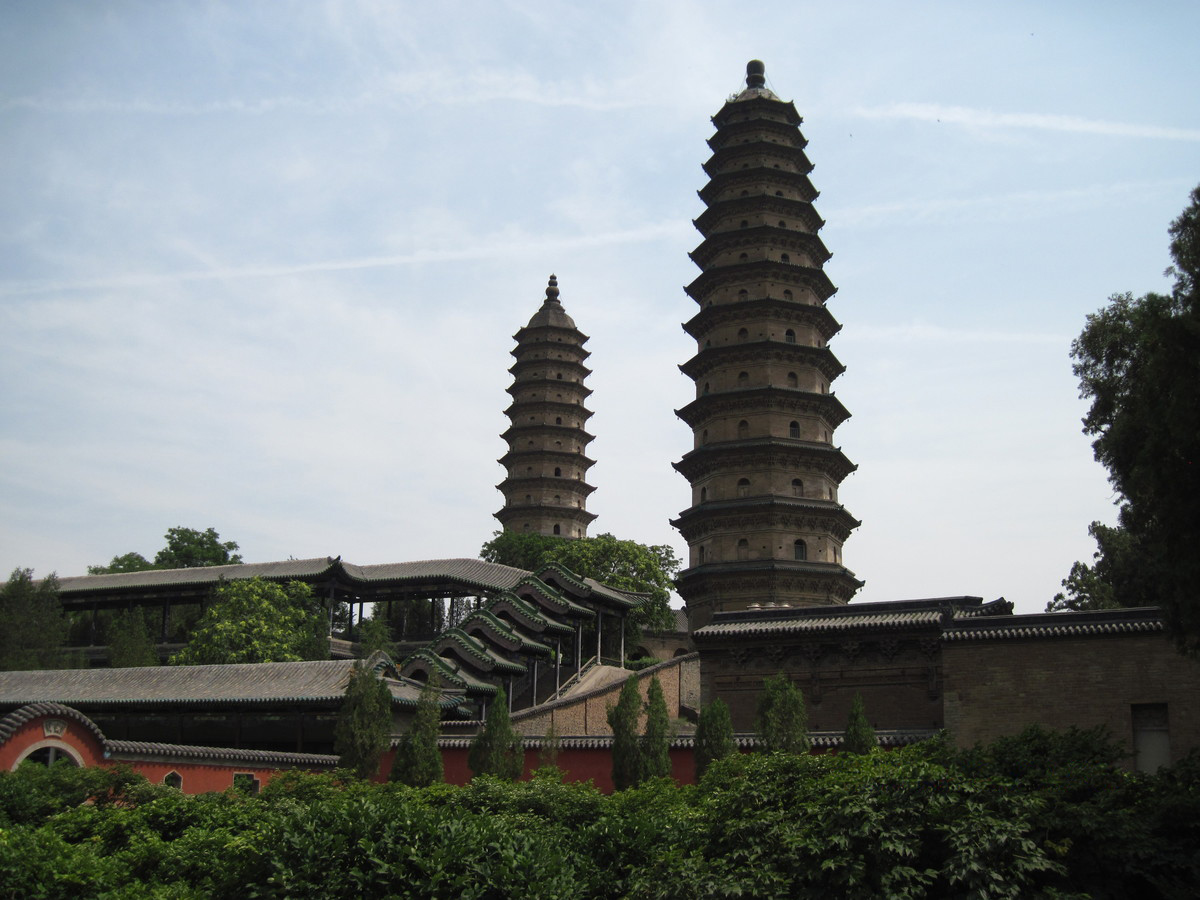 The twin towers inside the Yongzuo Temple, Taiyuan, Shanxi, China as of July 09, 2011.